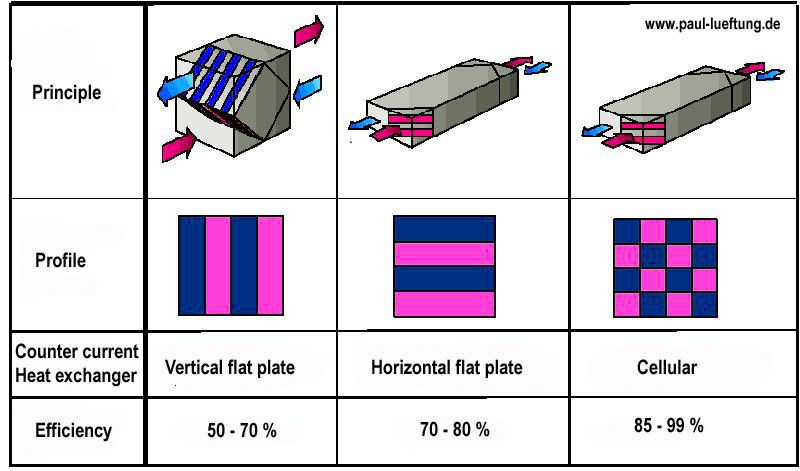 Countercurrent heat exchanger types - Diagram